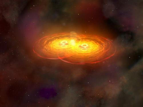 This illustration shows a stage in the merger of two galaxies that forms a single galaxy with two centrally located supermassive black holes surrounded by disks of hot gas. The black holes orbit each other for hundreds of millions of years before they merge to form a single supermassive black hole that sends out intense gravitational waves.